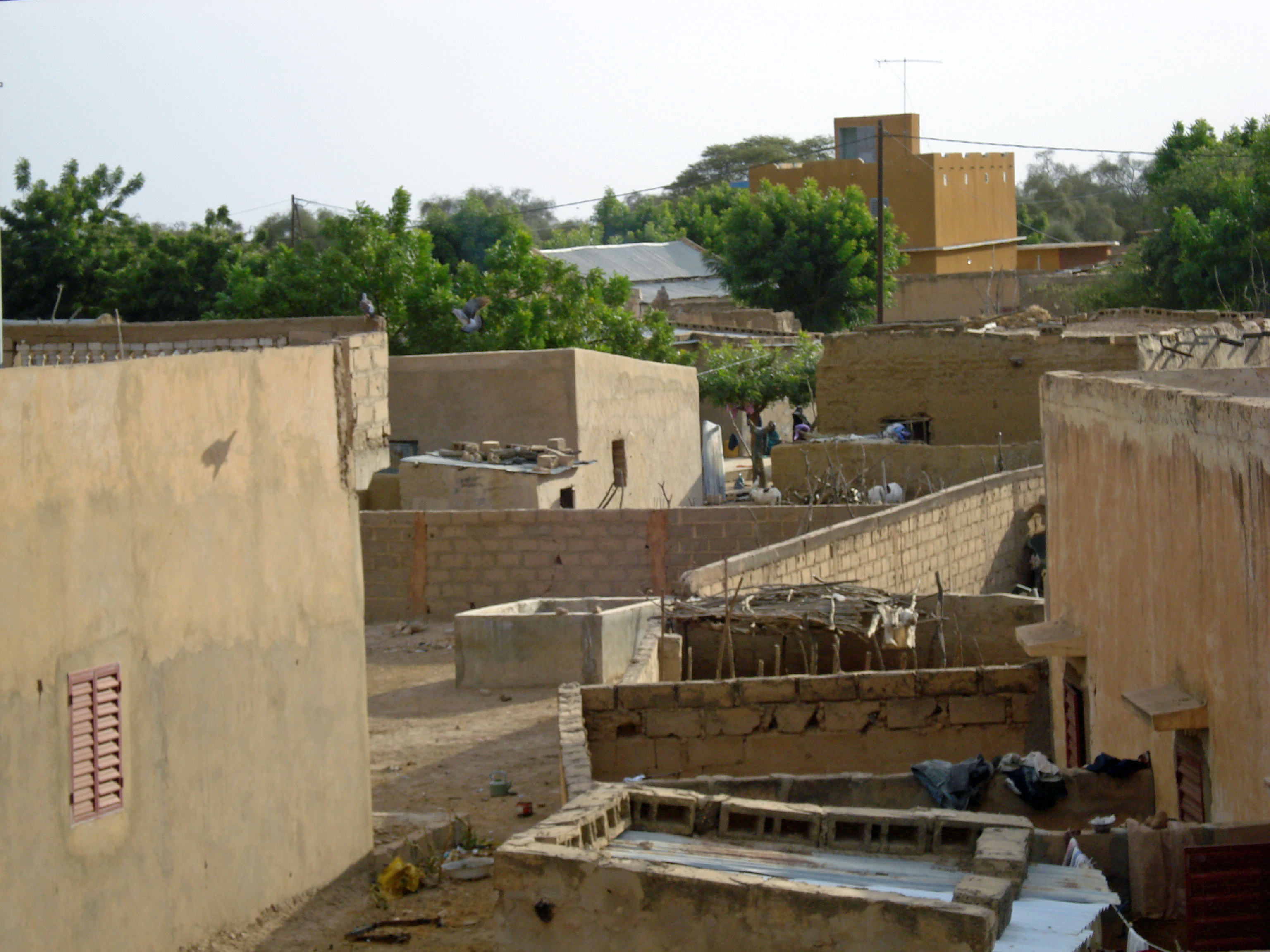 text